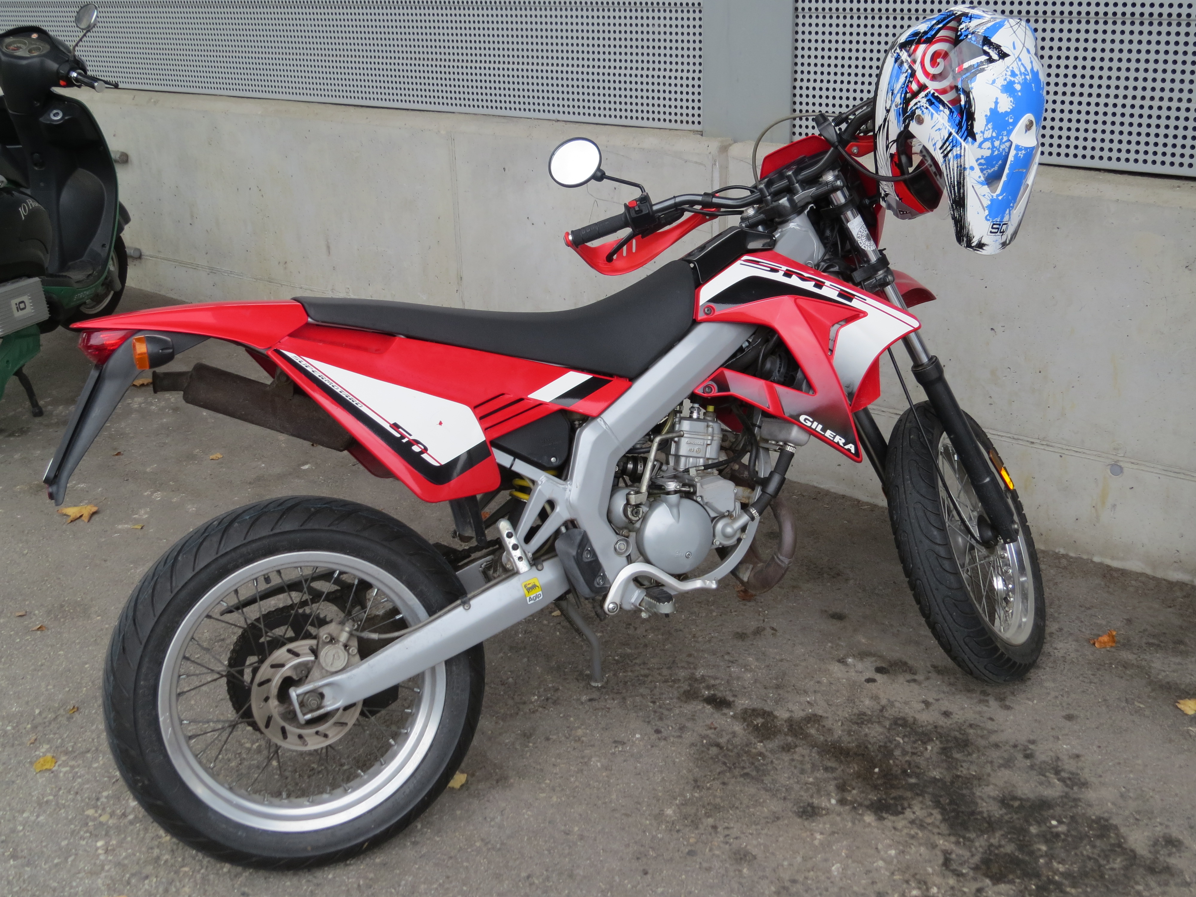 Gilera SMT 50 at Bahnhof St. Valentin